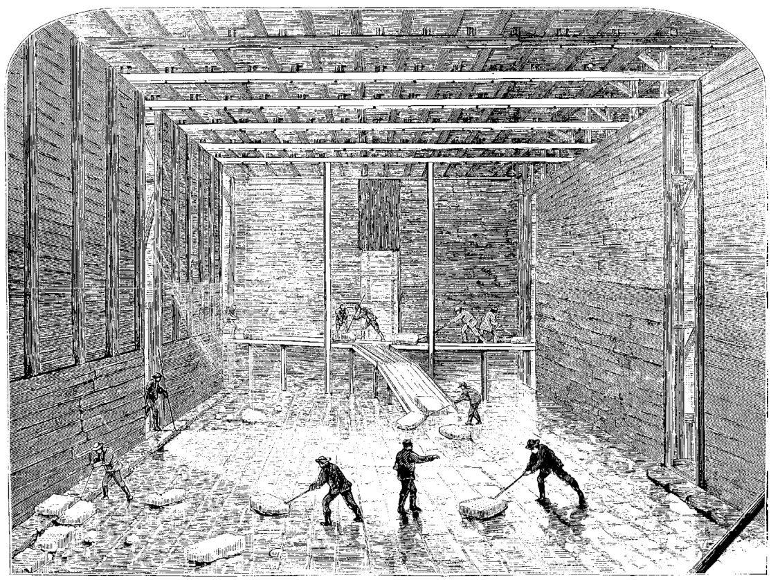 Ice being stacked at Barrytown, New York, 1871